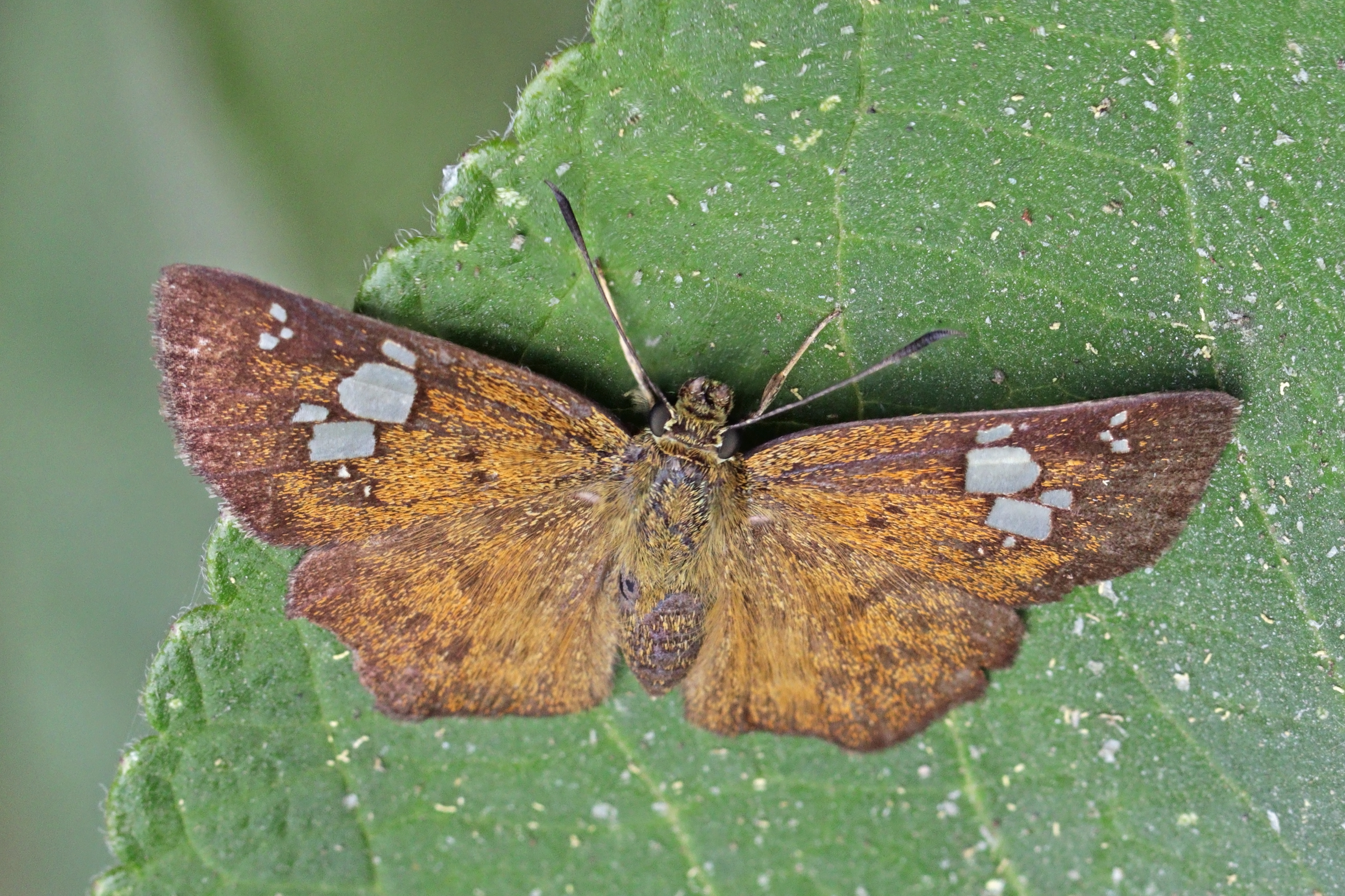 West Himalayan pied flat (Pseudocoladenia fatih), National Botanical Garden, Godawari, Nepal